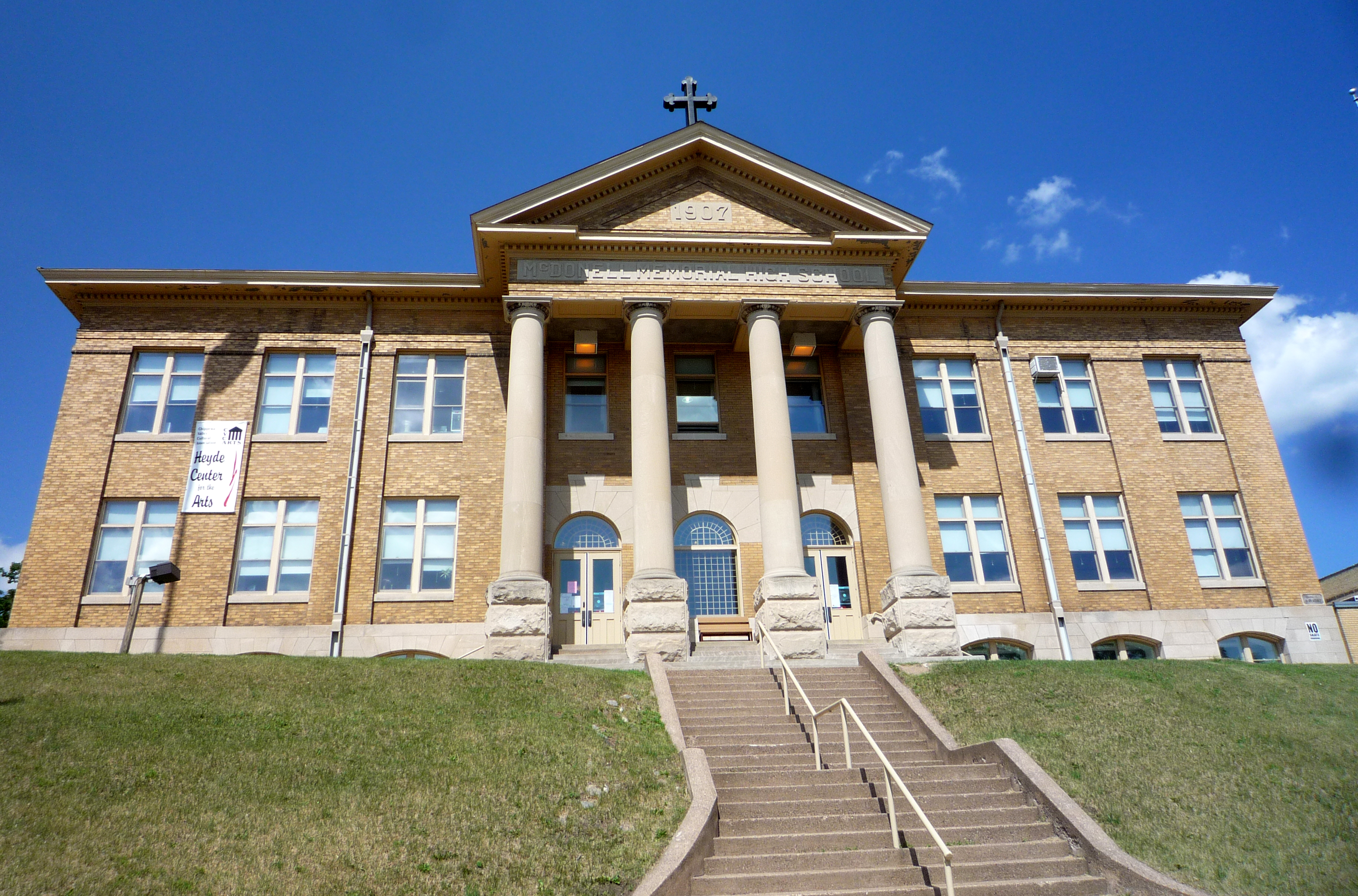 McDonell High School building, now the Heyde Center for the Arts belonging to the Chippewa Valley Cultural Association, was build int 1907 and is listed on both the National and State Register of Historic Places, Chippewa Falls, Wisconsin, USA.